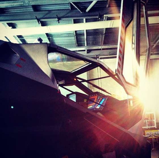 Part of the truck used in the film Prometheus displayed at the Coventry Transport Museum.